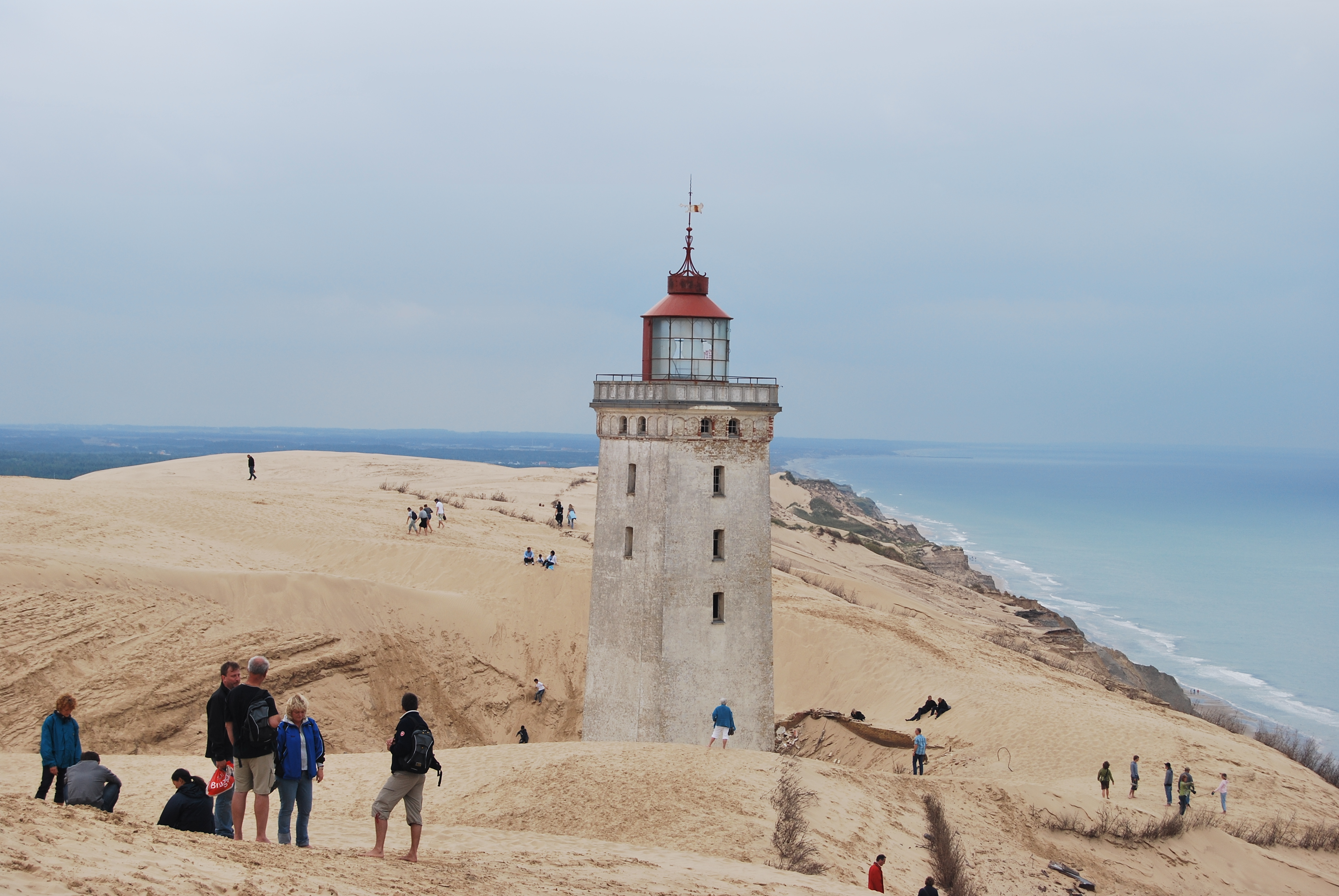 The lighthouse at some distance